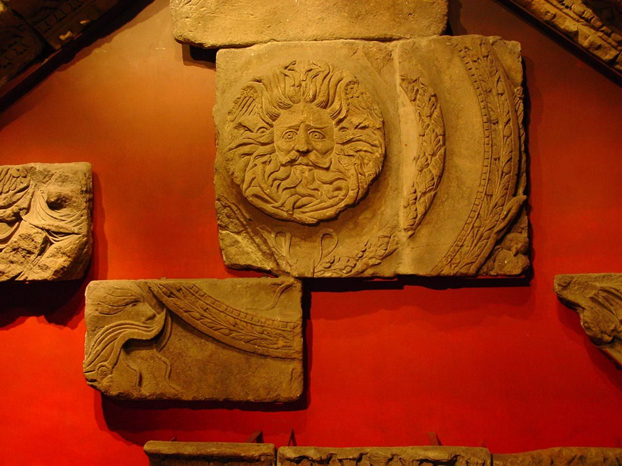 Ruins of Roman temple, Aquae Sulis, modern Bath, England, UK